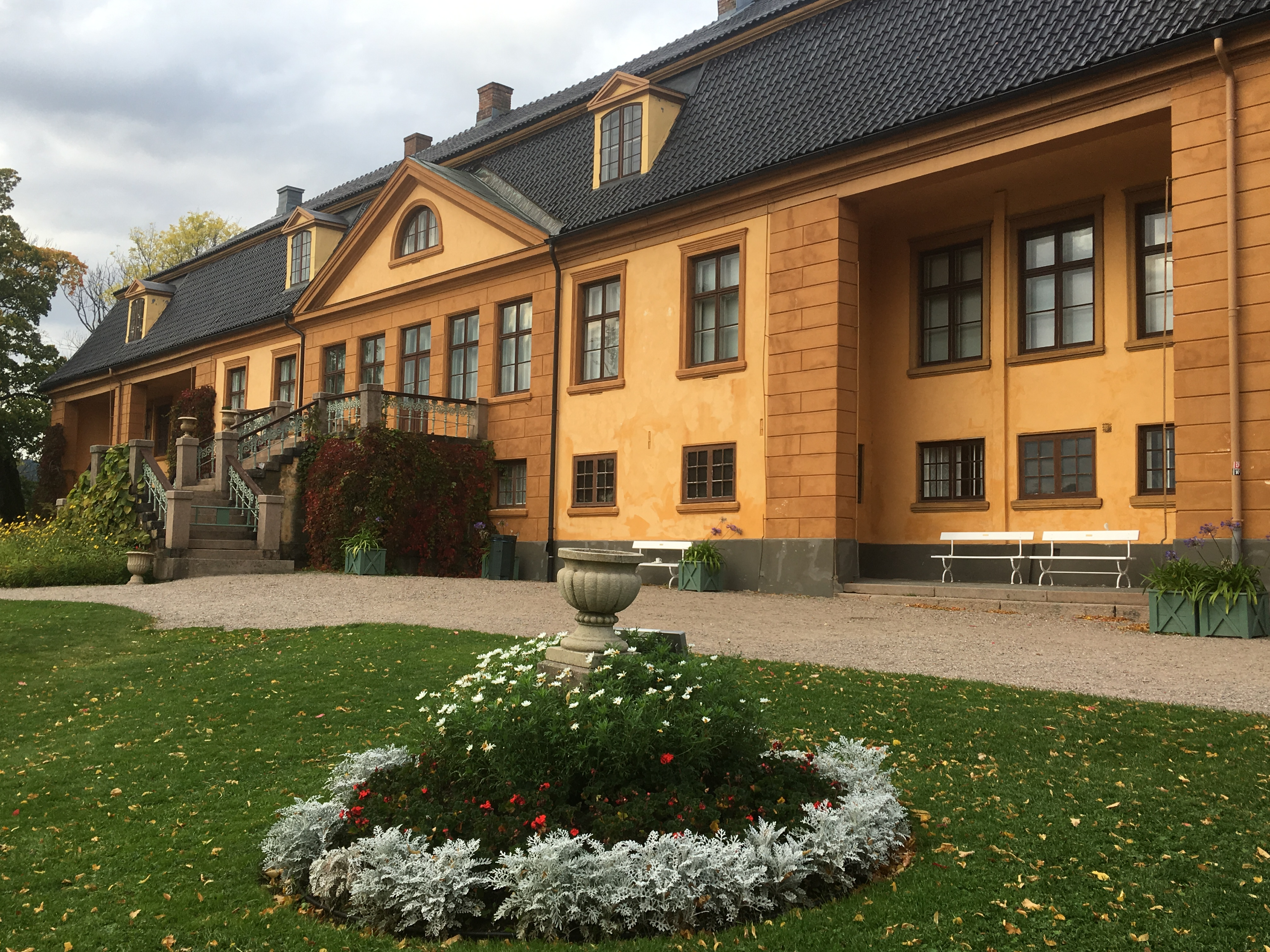 Autumn impressions from the exterior of Bogstad Gård (Bogstad Manor), Oslo.